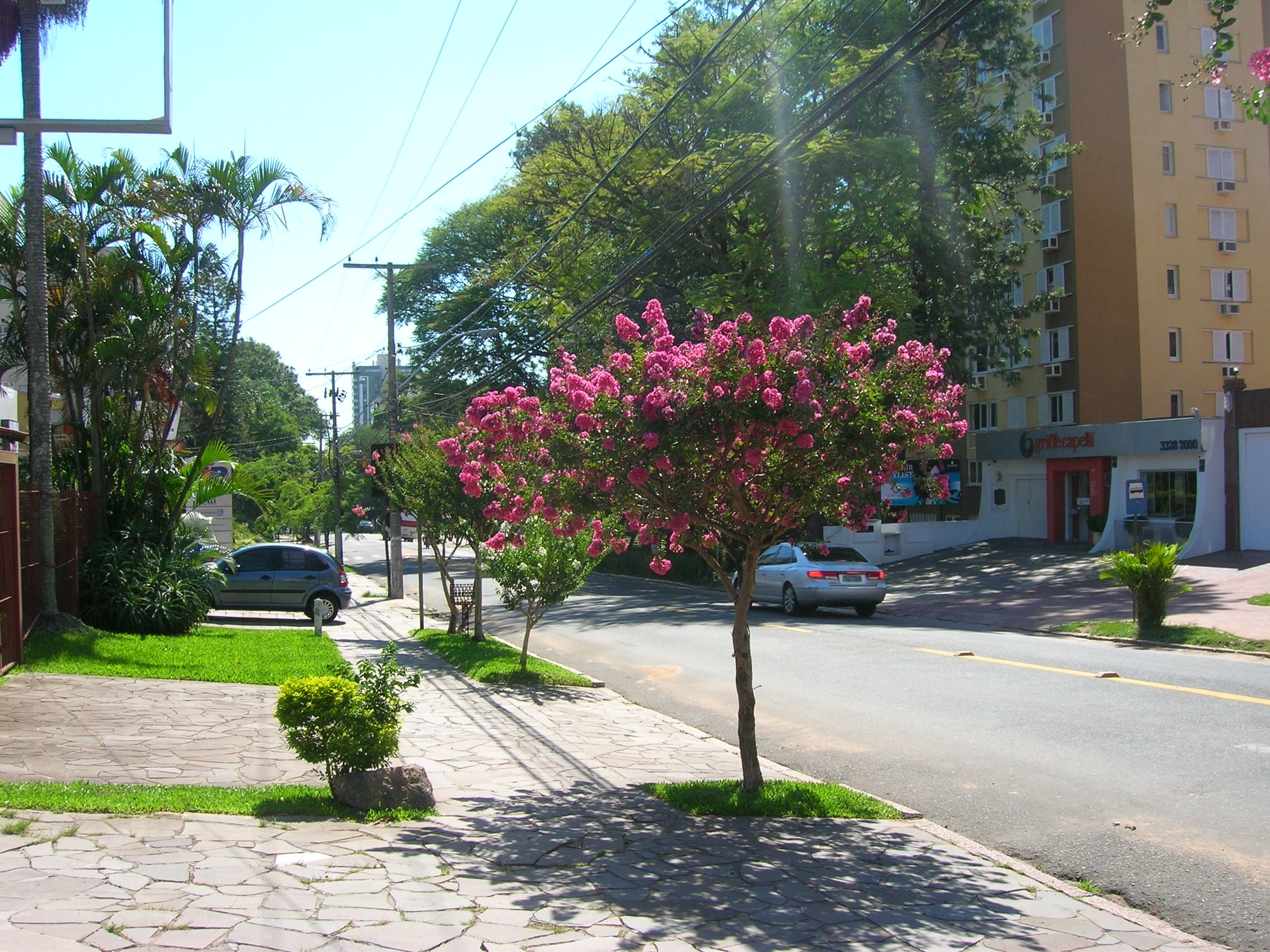 The Anita Garibaldi Street, in the city of Porto Alegre, Brazil. The pink tree is a Lagerstroemia indica.